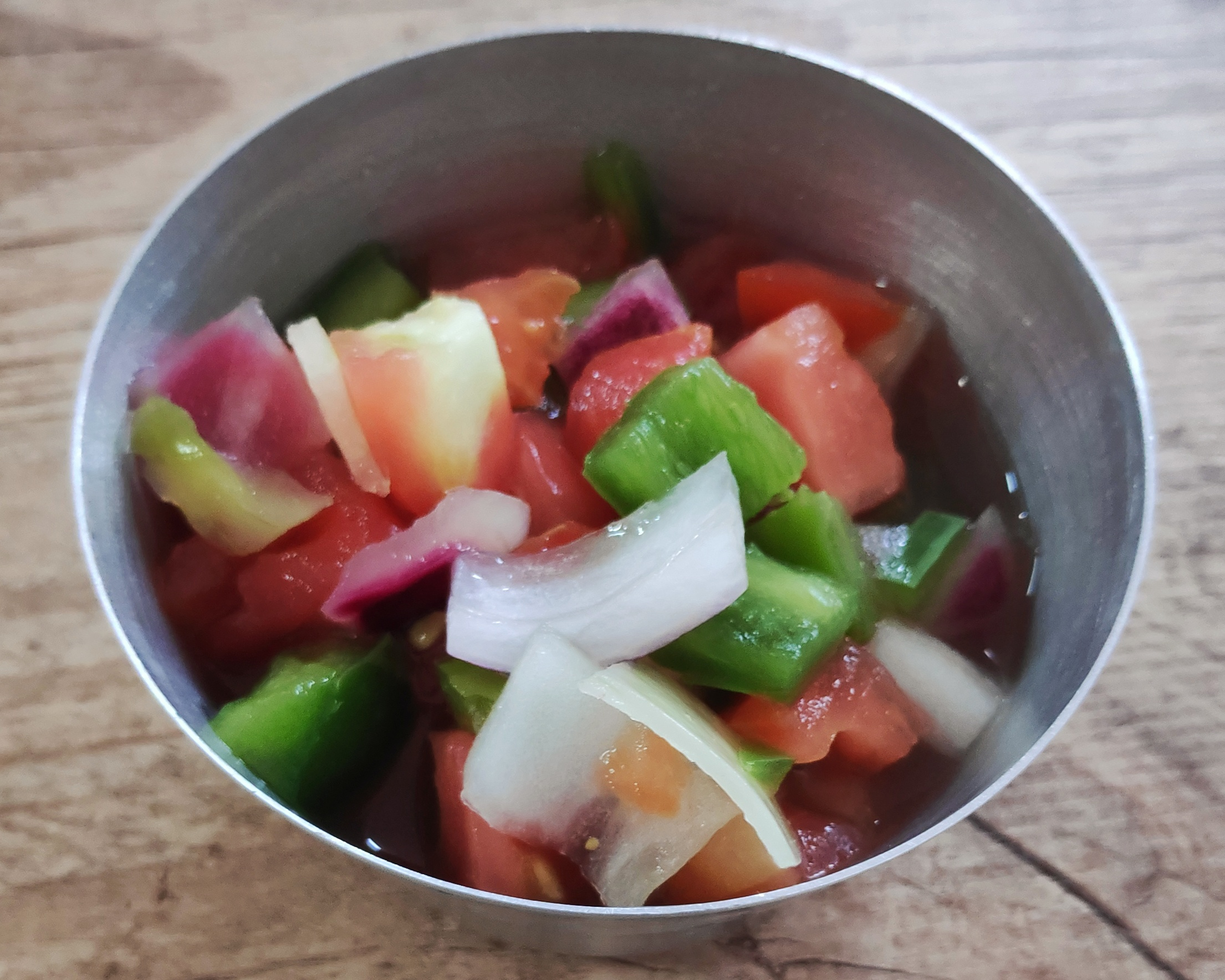 Vinagrete brasileiro (Brazilian vinaigrette)